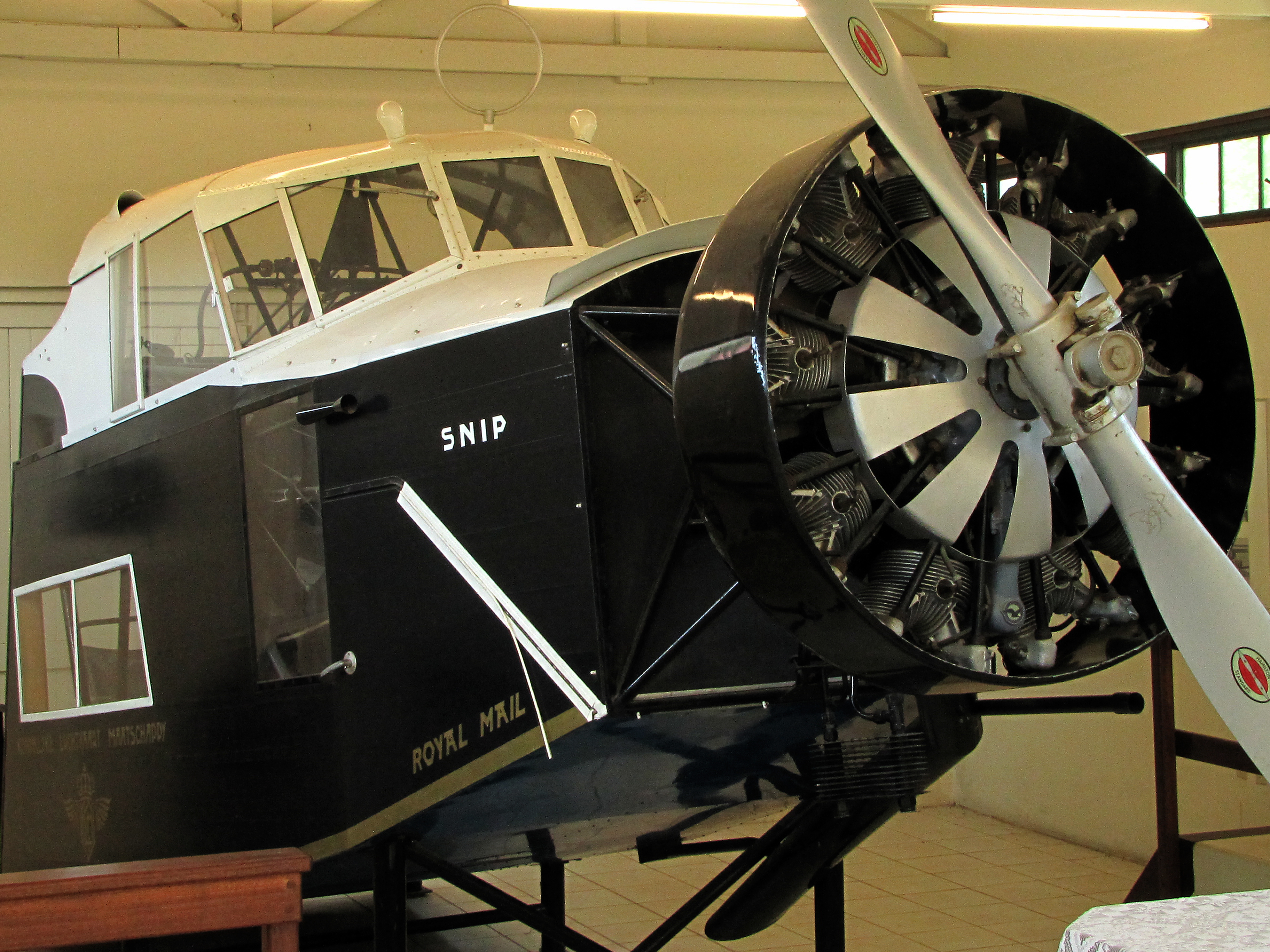 The remains of the KLM Fokker F.XVIII "Snip" on display at the Curaçao Museum, Dutch Caribbean. In 1934 the "Snip" was the first KLM airliner to cross the Atlantic Ocean.